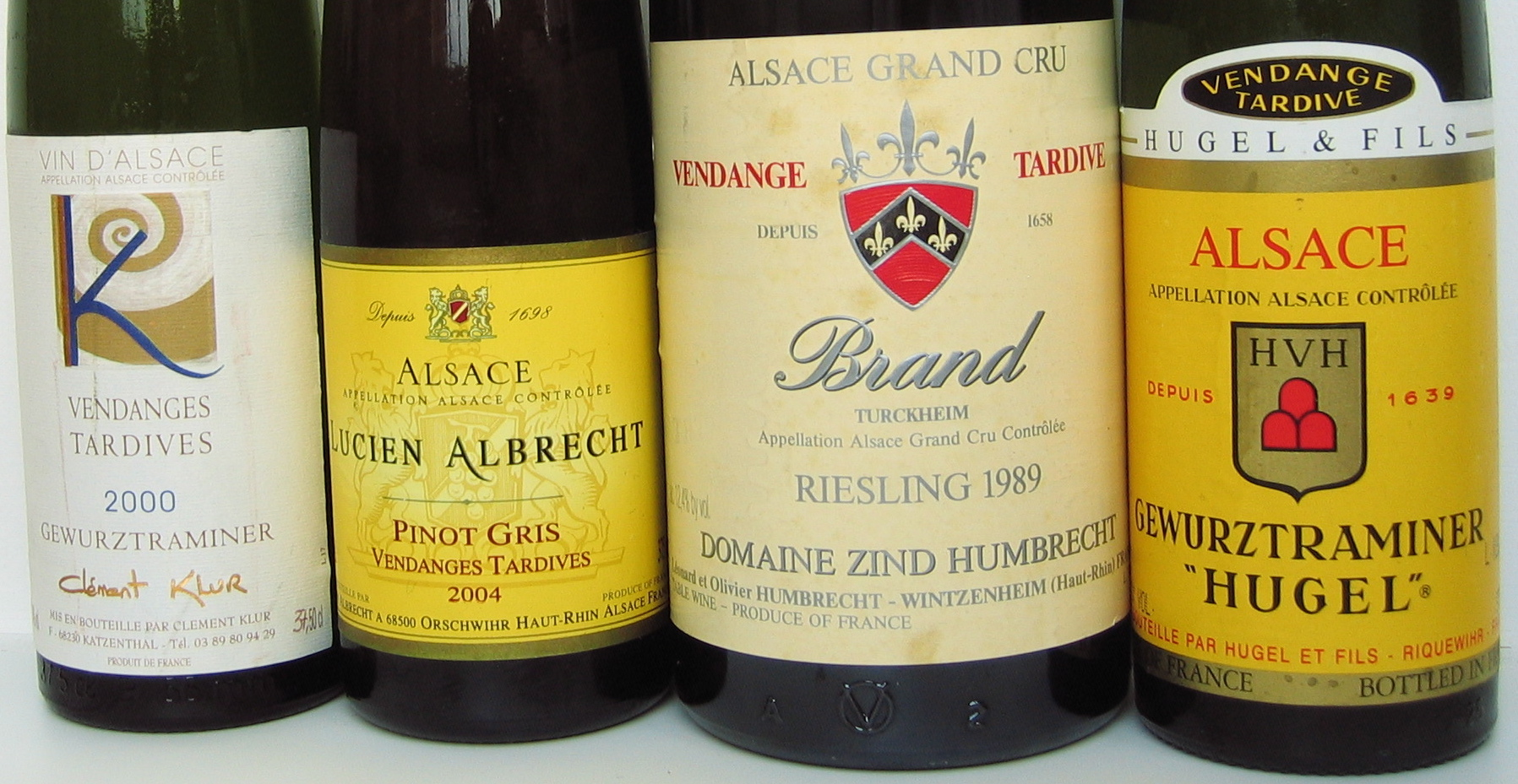 Four bottles of Alsace Vendange Tardive from different producers. The two bottles on the left use the plural of the designation, Vendanges Tardives.